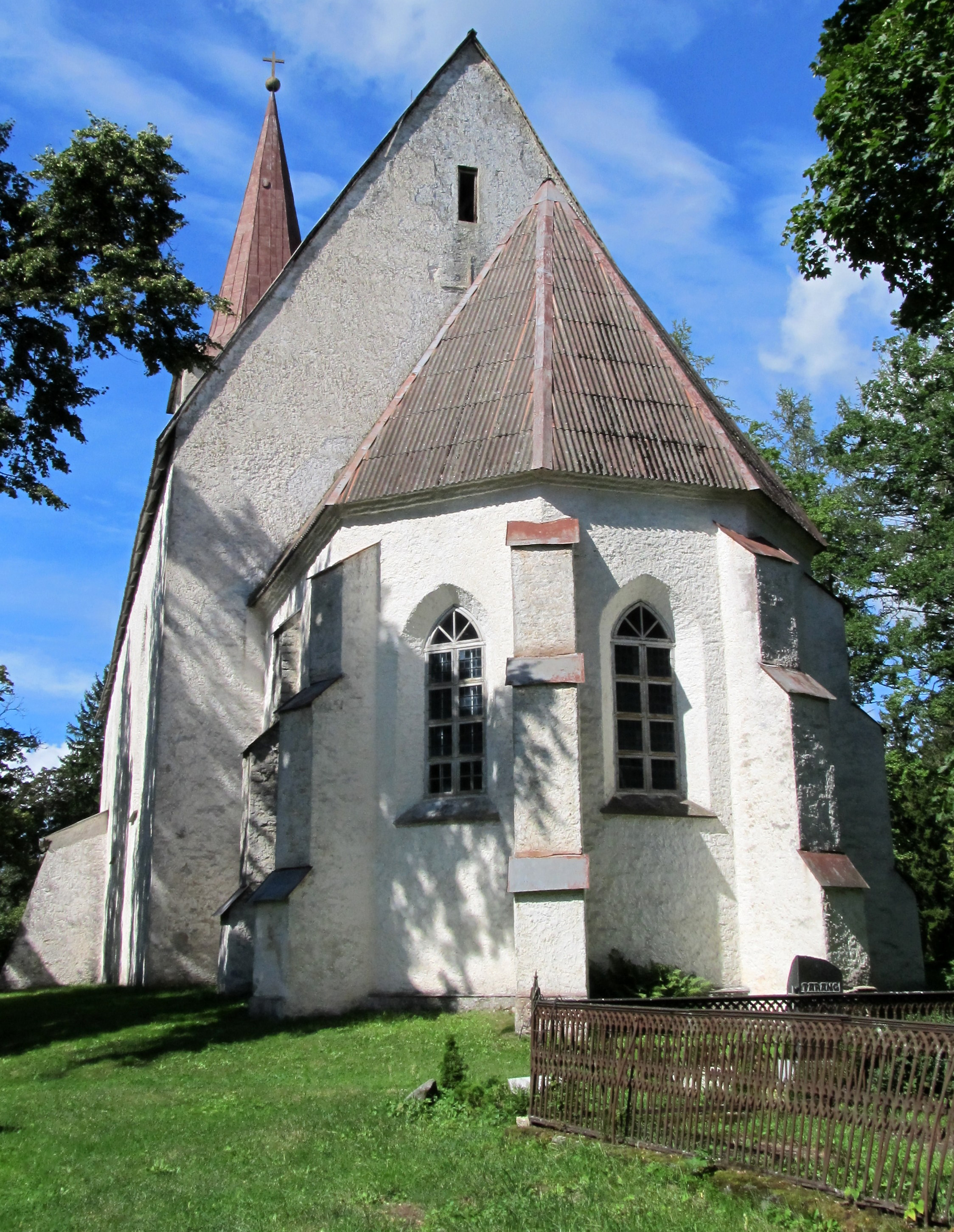 Church of Kullamaa from the back